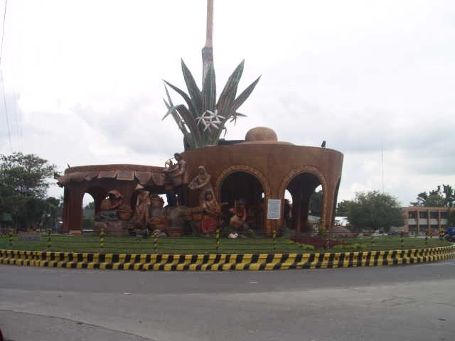 This is the Surallah Landmark. This landmark was inaugurated last March 15, 2011.